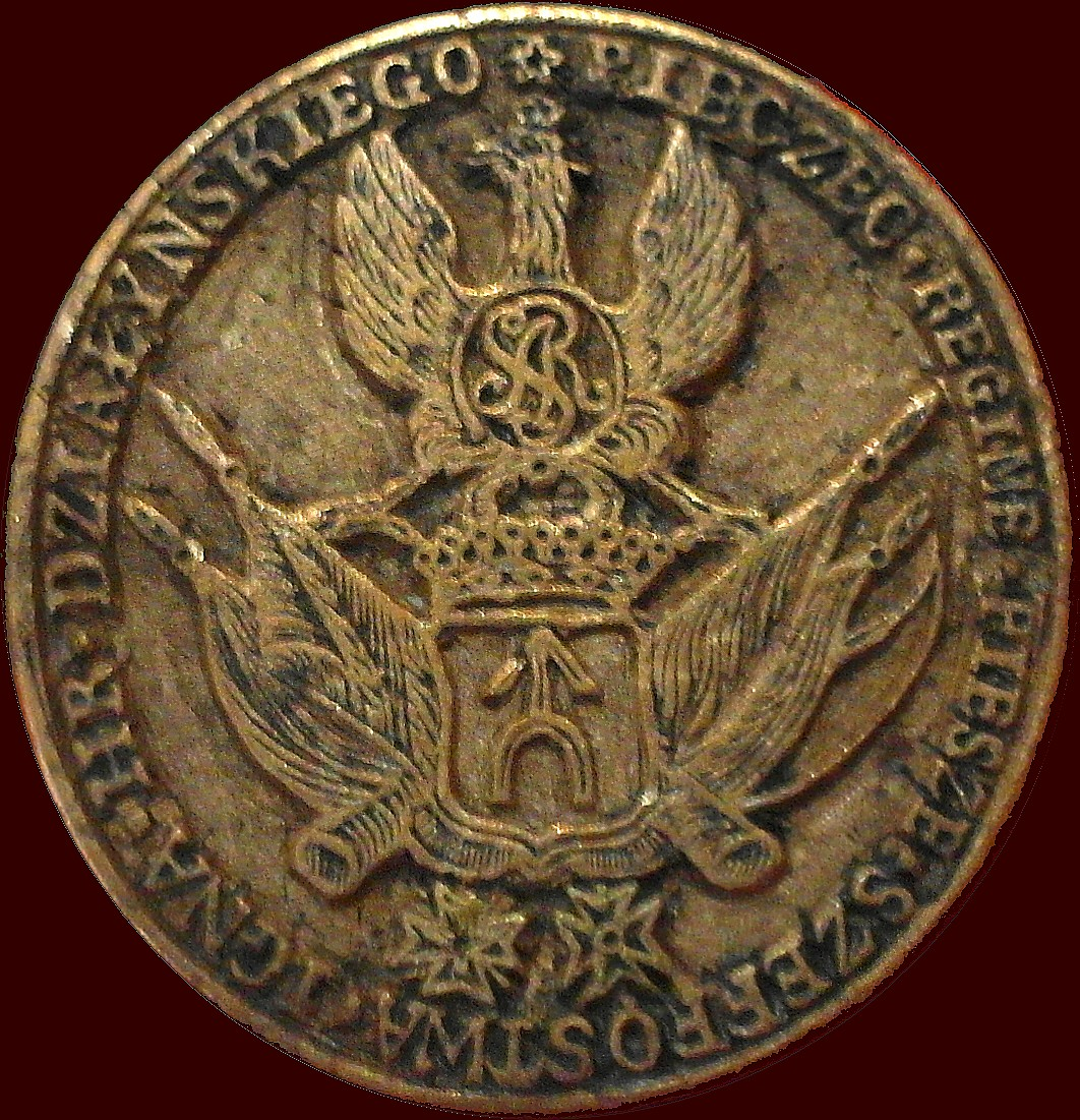 Seal of 10th Regiment of Foot (Poland), 1791